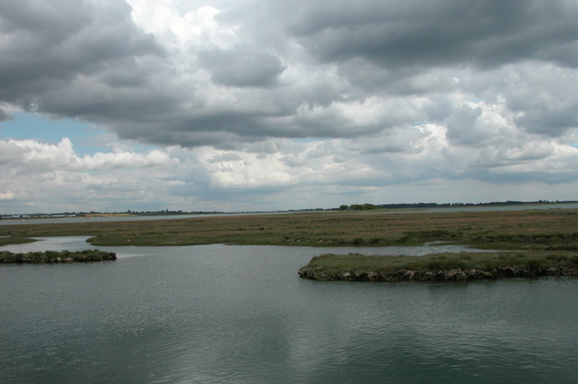 North Binness Island. Now a nature reserve in Langstone Harbour, this island was used as a site for decoy lights to divert bombing from Portsmouth Harbour during WWII. This picture was taken at high tide, at low tide it's surrounded by mud.